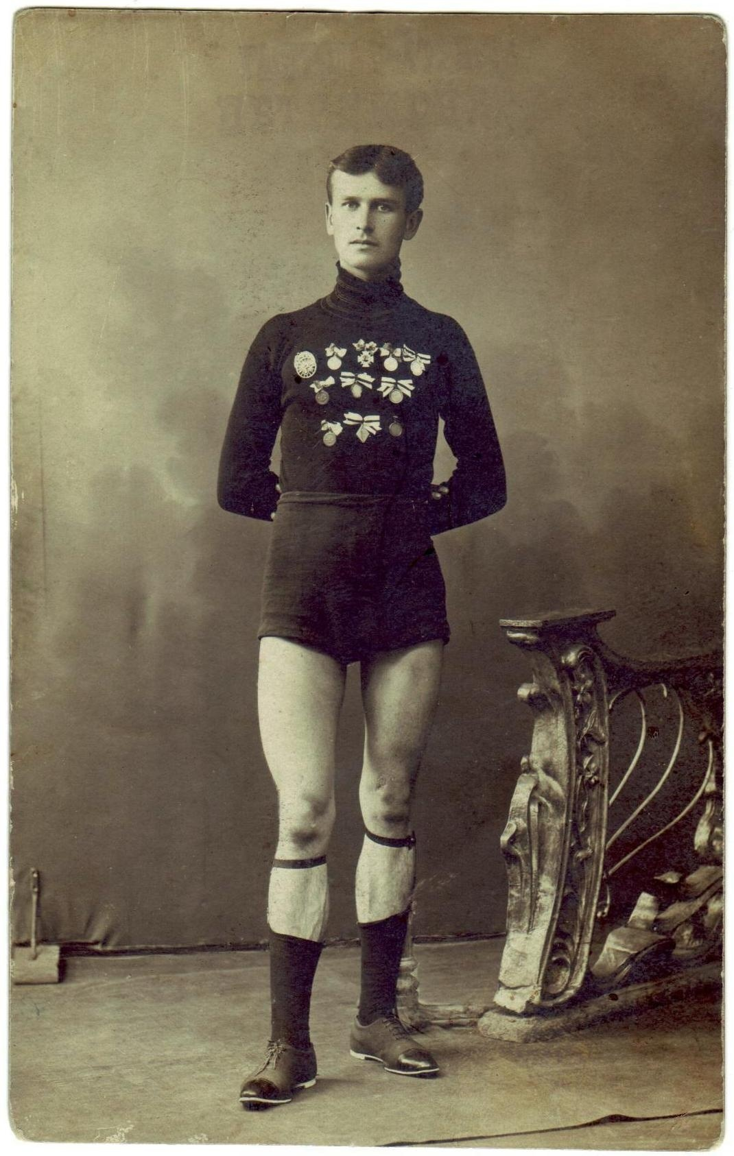 Petras Mejeris - famous Lithuanian cyclist, 1910. Picture from Juozas Klimas' personal archives.